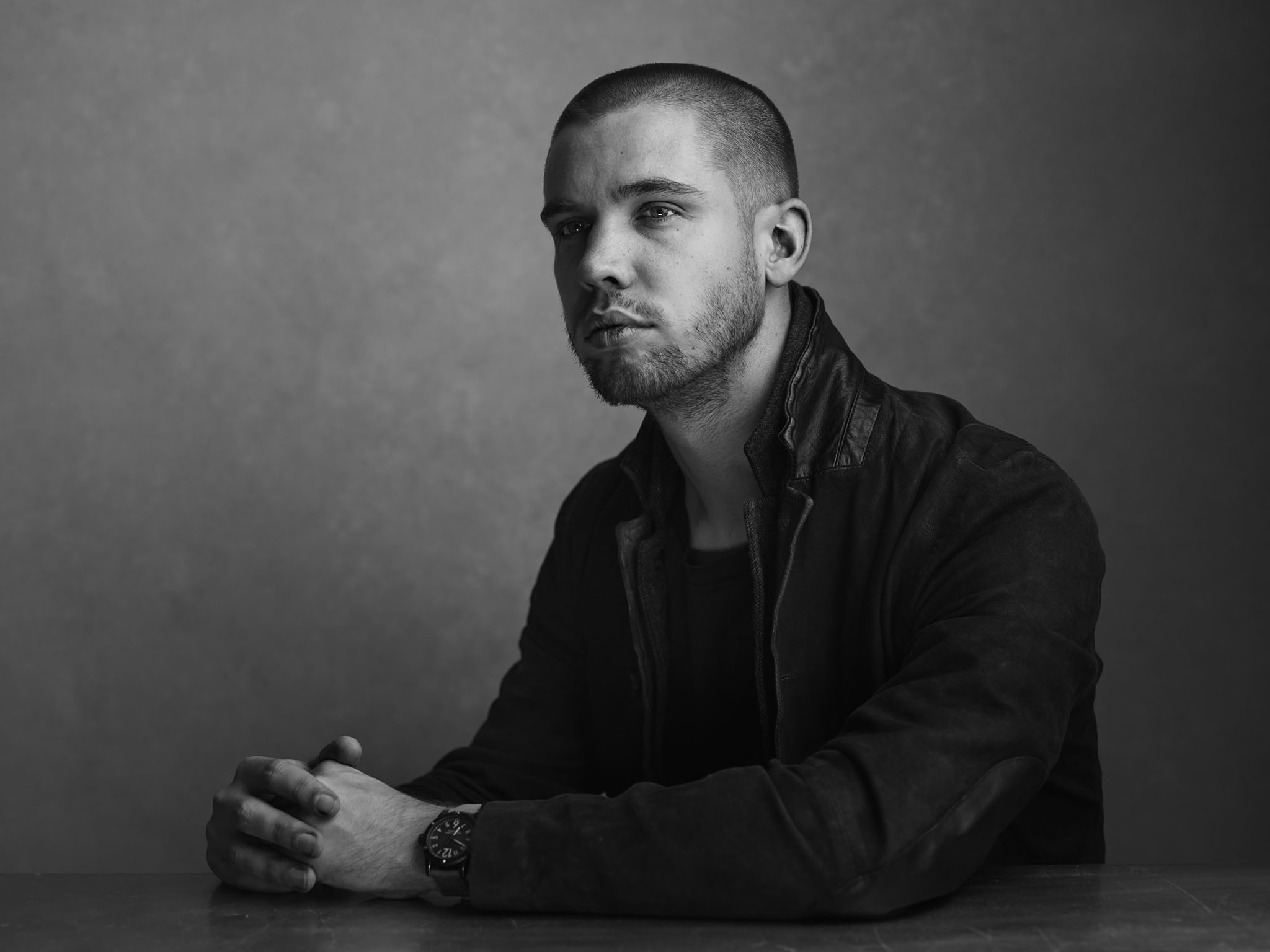 Joey L.